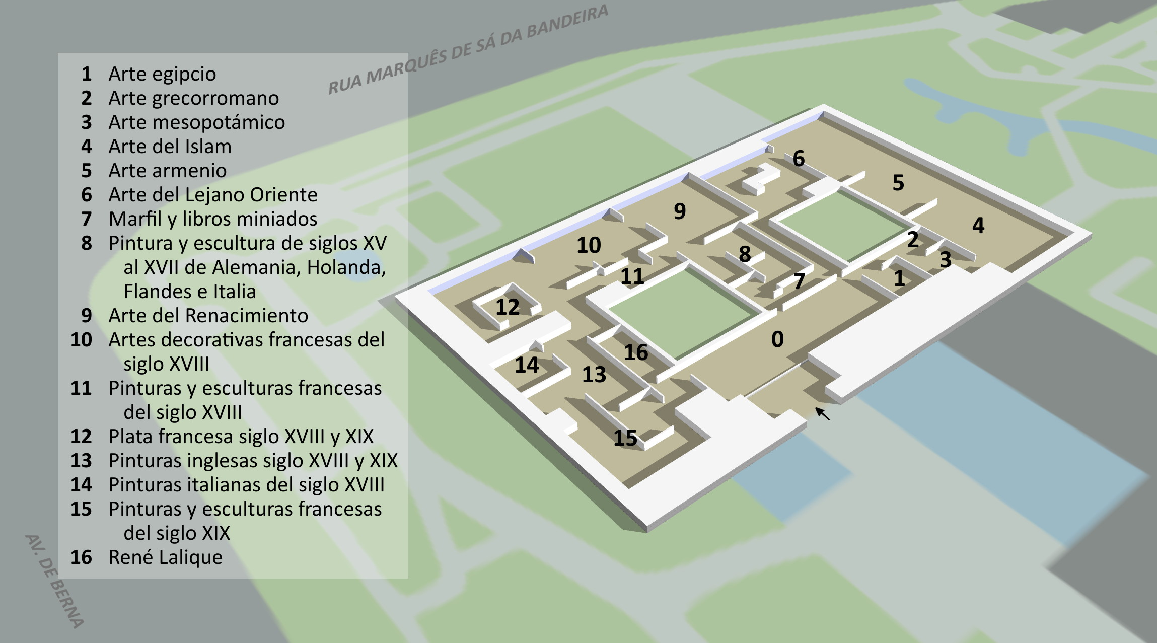 Plan of the Calouste Gulbenkian museum, Lisbon, Portugal.